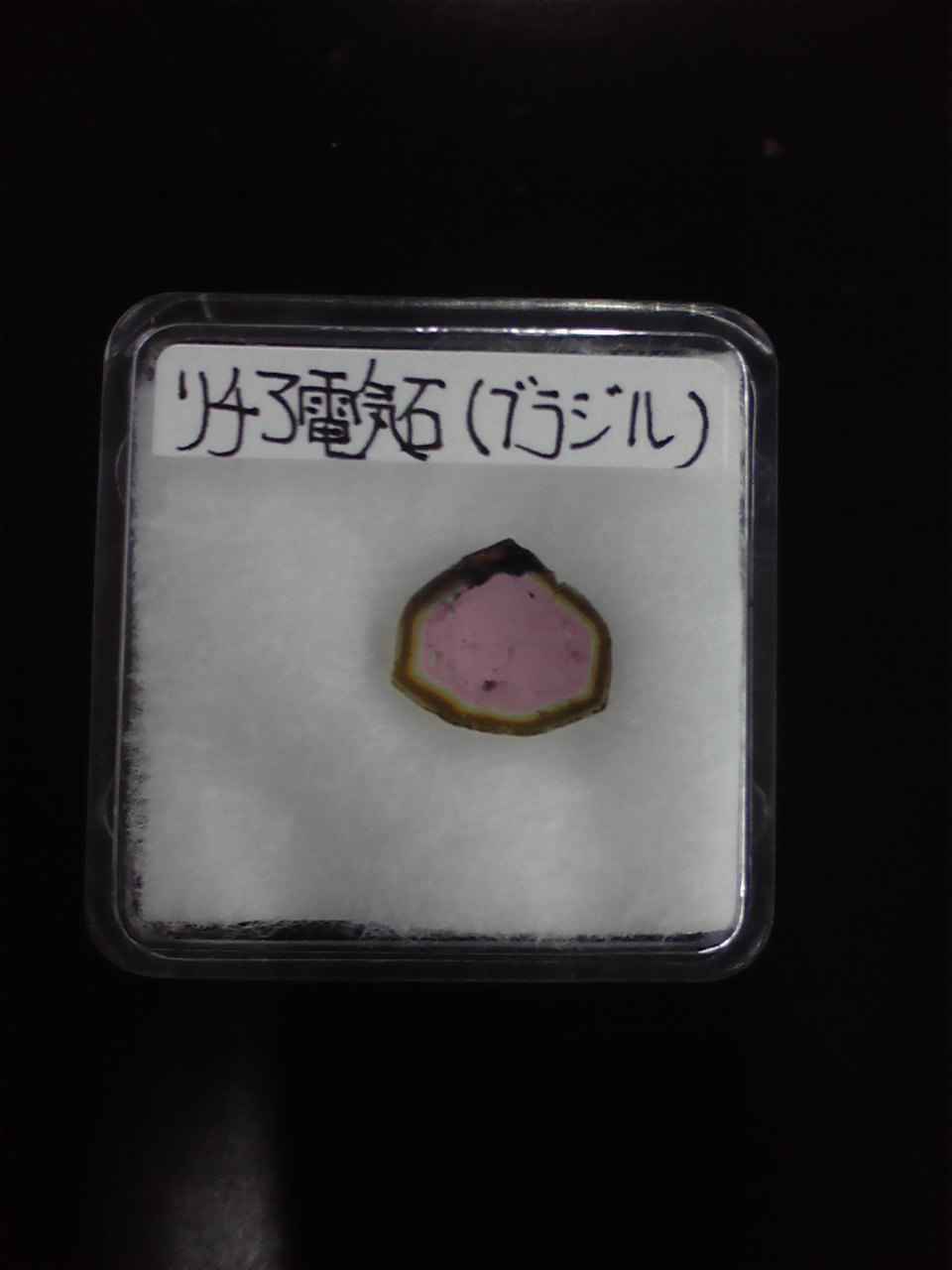 Elbaite from Brazil. It's owning by University of Tsukuba.